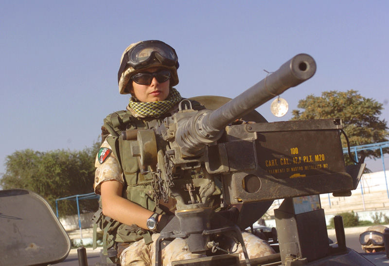 Alpini of the Italian Army on patrol in Afghanistan with Puma 6x6.